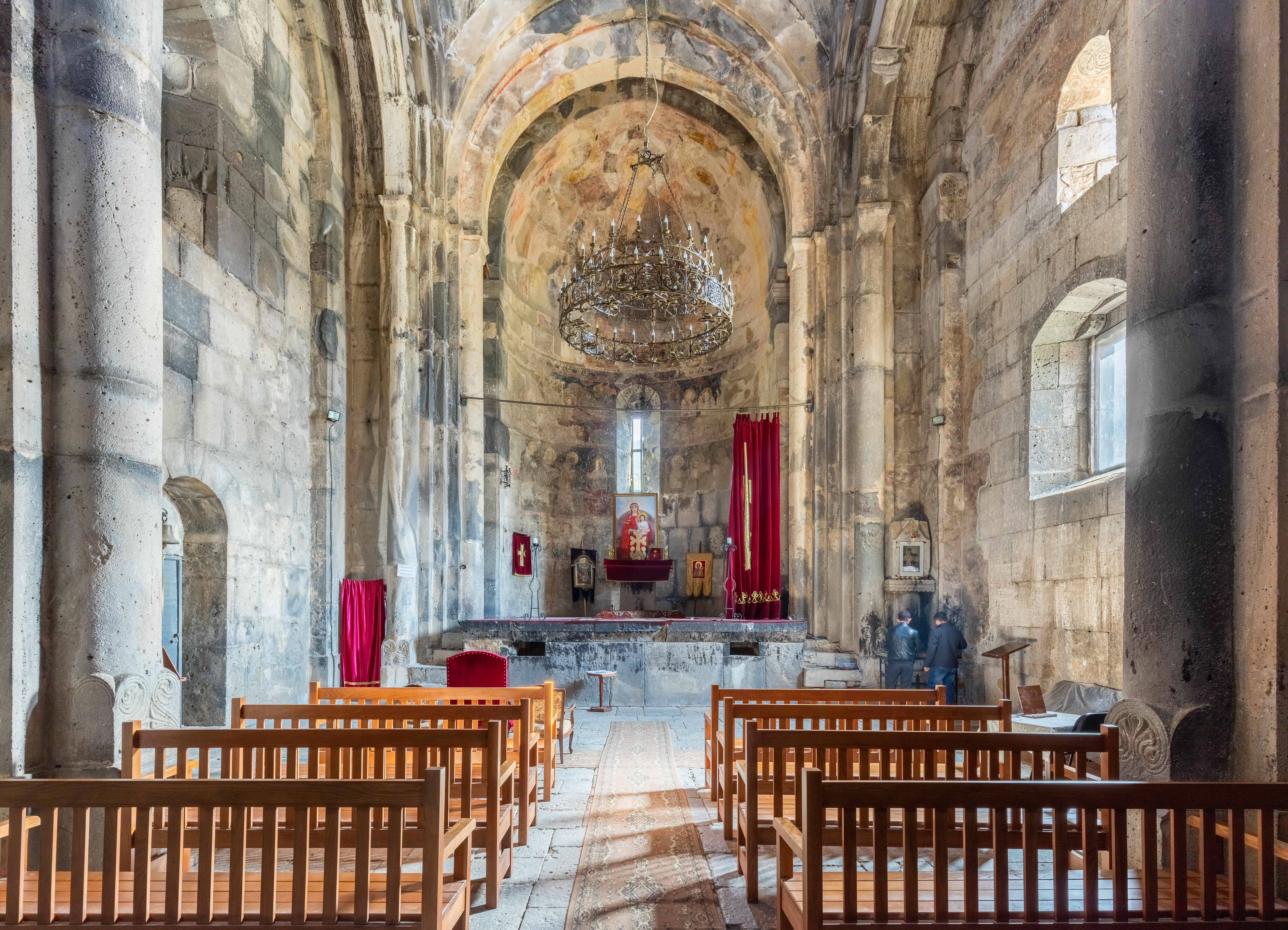 Haghpat Monastery, Armenia